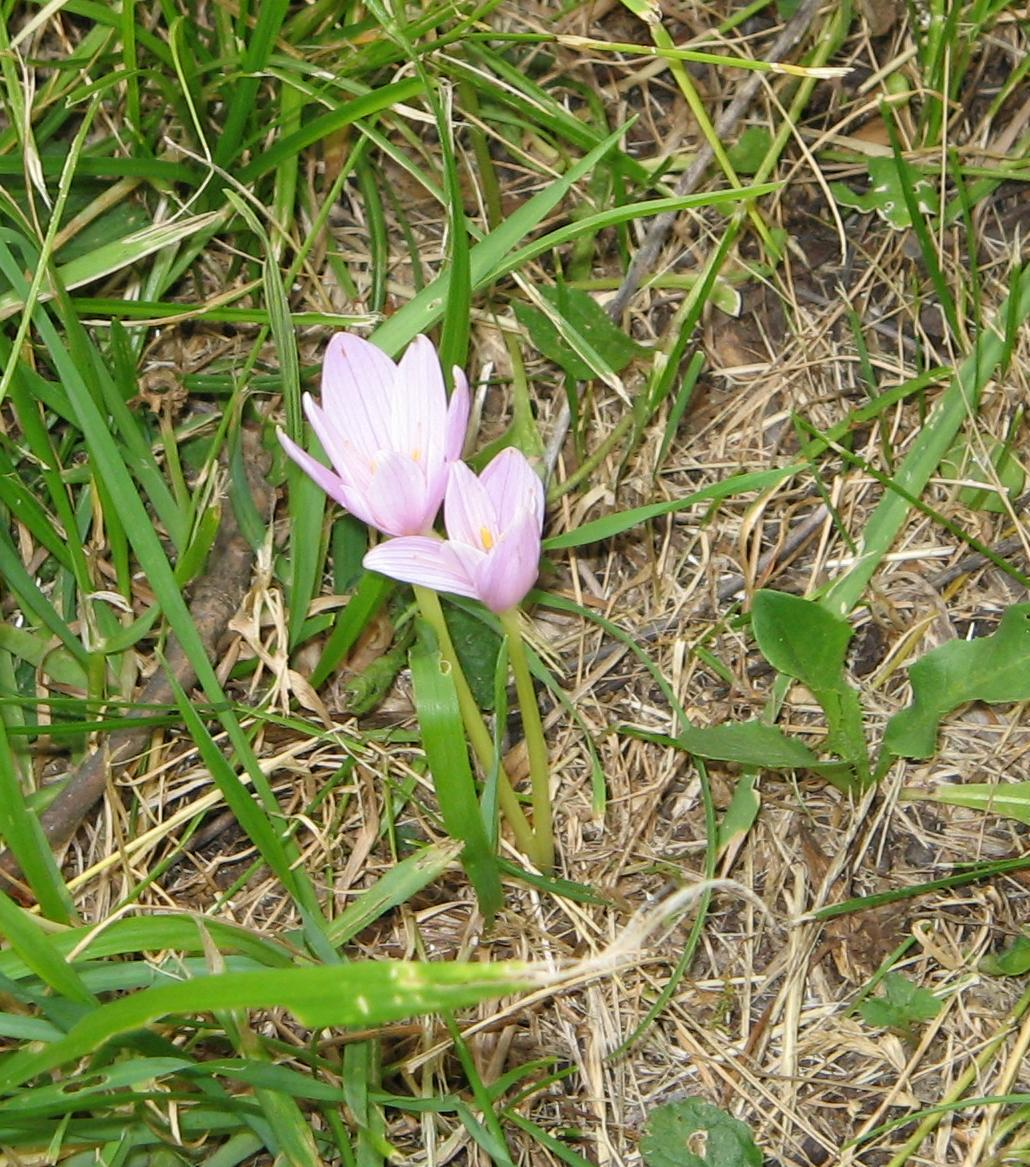 Colchicum alpinum in the Grandes Rousses